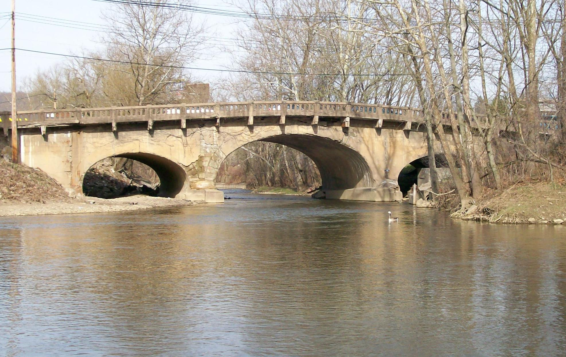 The Elm Grove Stone Arch Bridge carrying National Road (U.S. Rte 40) over Wheeling Creek in Elm Grove, West Virginia. The bridge is photographed from its western facade. The bridge is listed on the NRHP in 1981. Taken April 2, 2010.